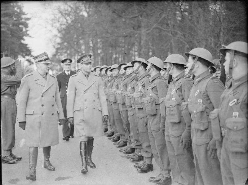 Allied Forces in the United Kingdom 1939-45 King George VI and General Władysław Sikorski, Prime Minister of the Polish Government-in-Exile, inspecting a guard of honour of the 1st Polish Corps at Glamis, Scotland.